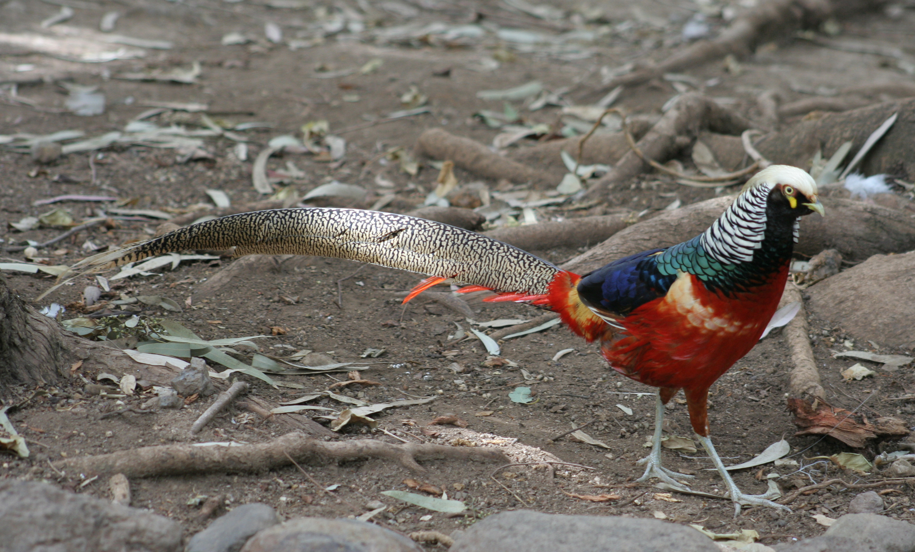 A hybrid pheasant at Arona, Canary Islands, Spain. It is a hybrid between Lady Amherst's Pheasant (Chrysolophus amherstiae) and another species probably a Golden Pheasant (Chrysolophus pictus).